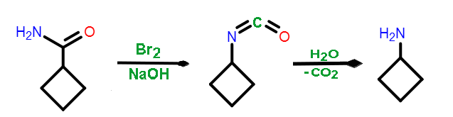 Cyclobutylamine synthesis by Hoffman rearrangement